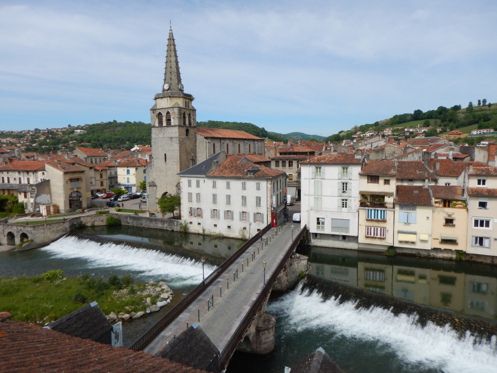 Saint-Girons (Ariege). Old Bridge on Salat river, downtown.